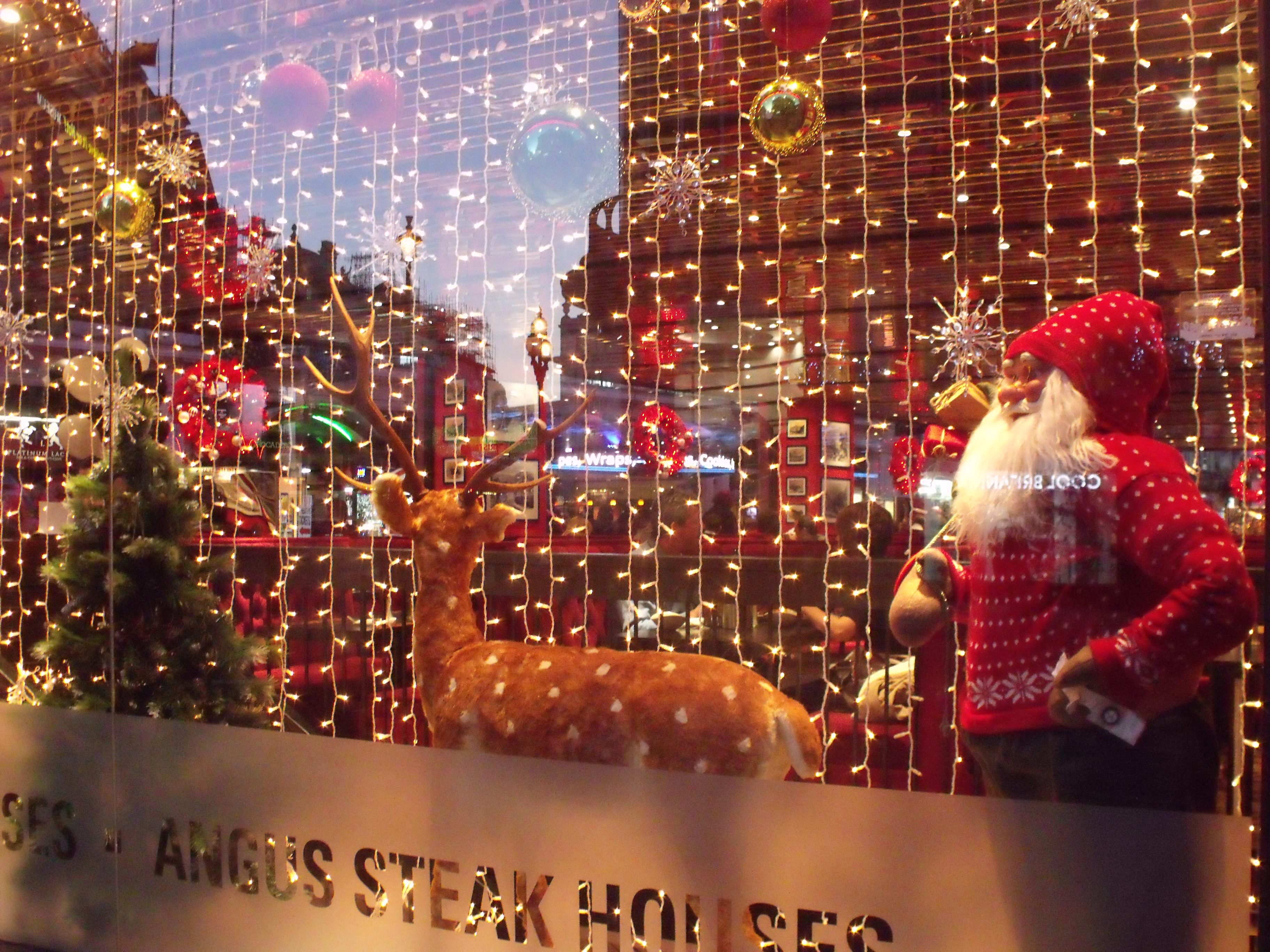 On or near Coventry Street in London. Near the theatres. Near Piccadilly Circus. At this corner with Haymarket is Aberdeen Steak Houses. Has Christmas decorations on the Haymarket side.